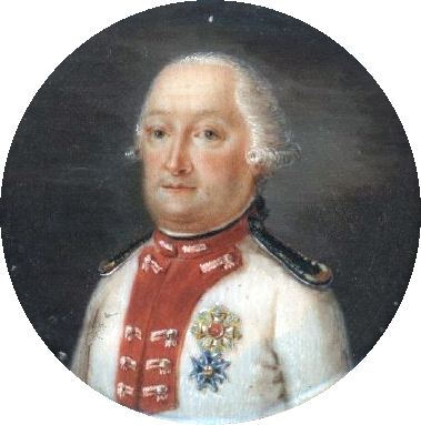 Charles II August, Duke of Zweibruecken